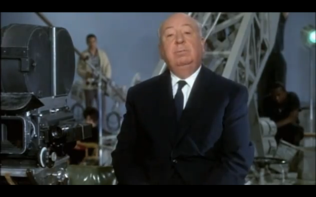 Alfred Hitchcock in Marnie's trailer.